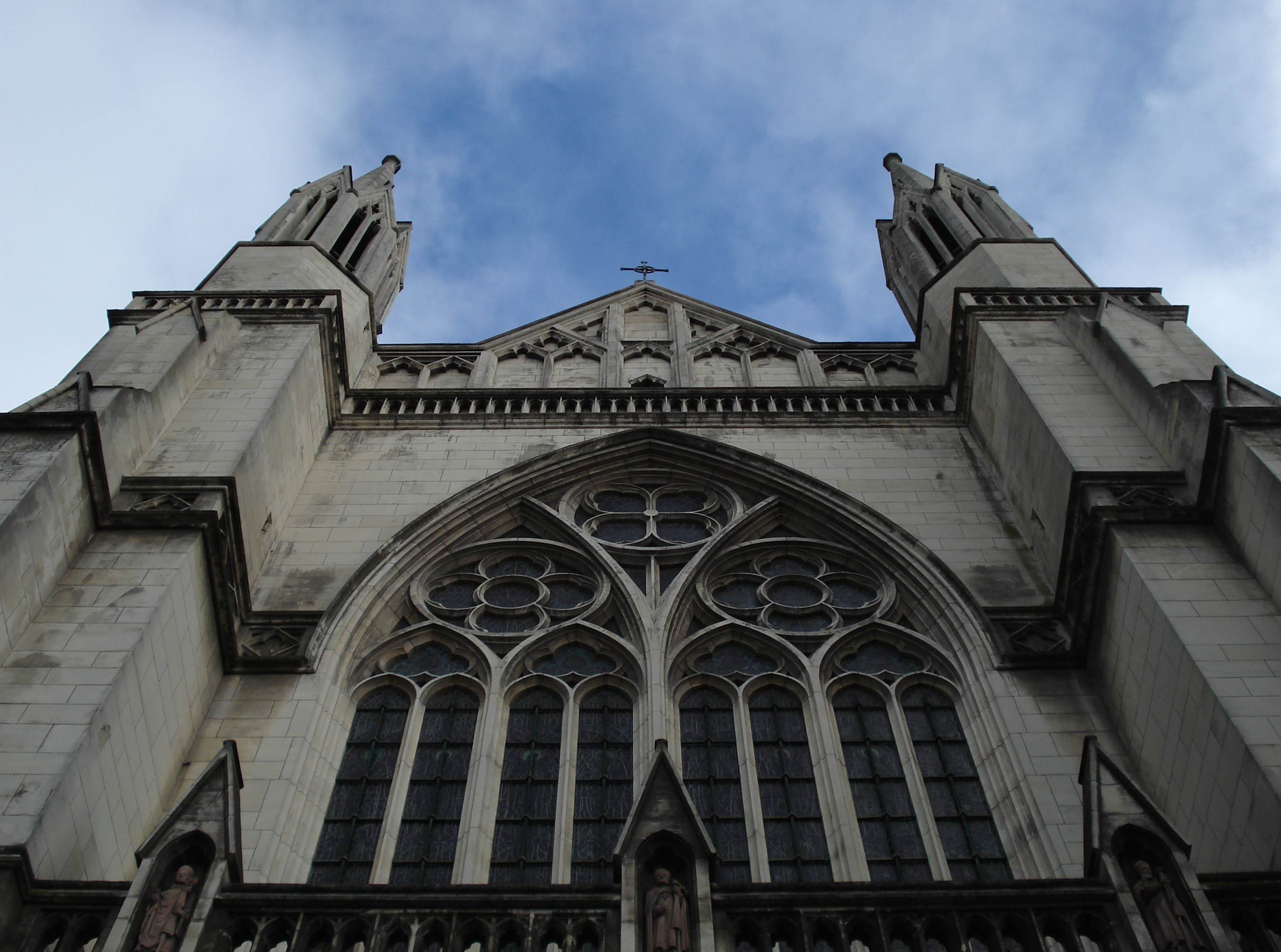 Stu G